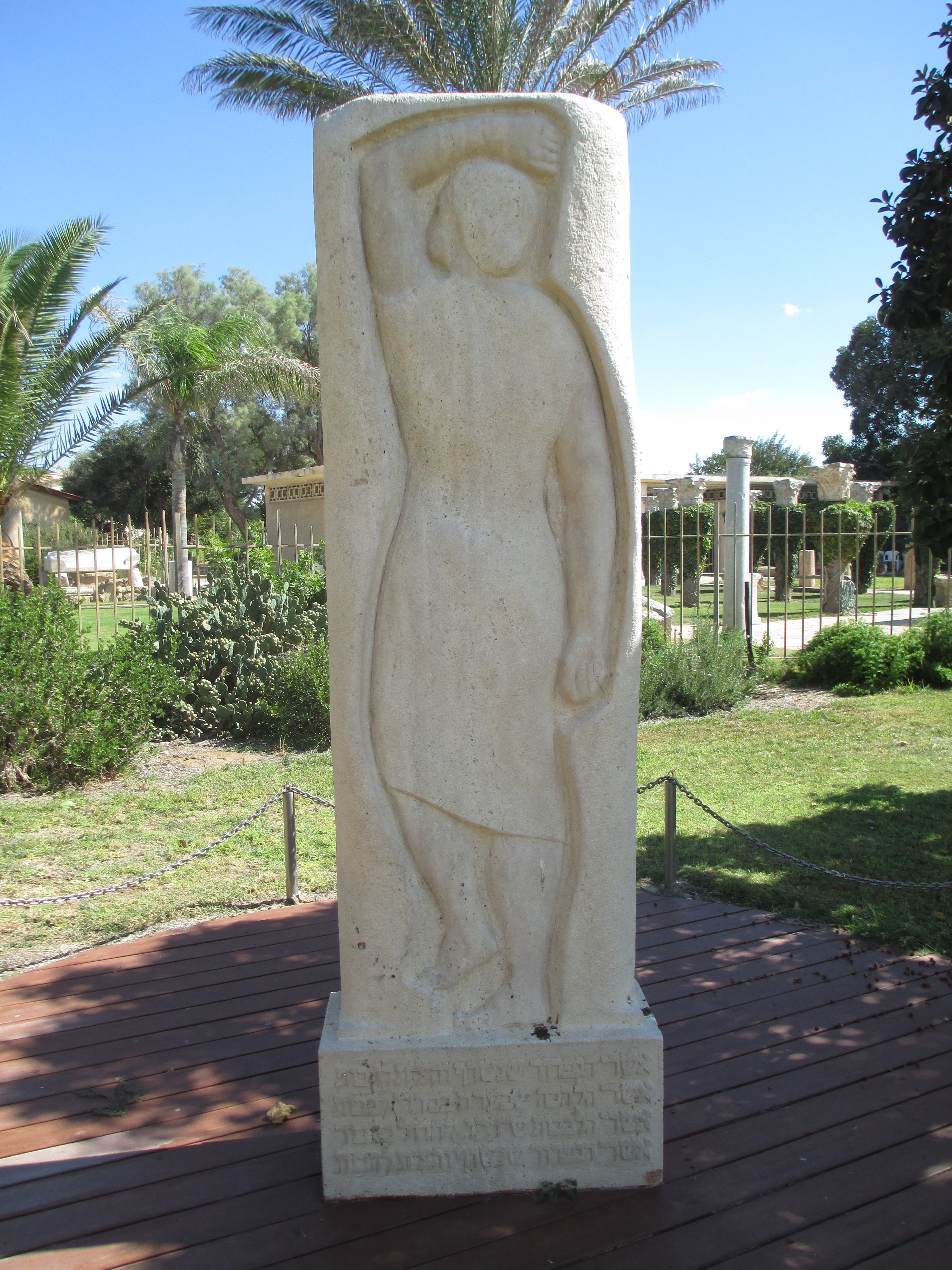 A Relief of Hannah Szenes in Kibbutz Sdot Yam